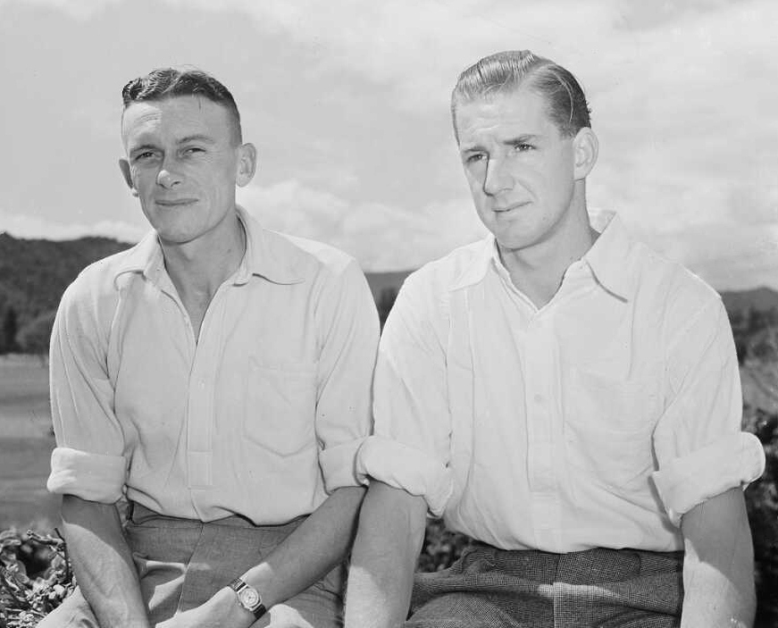 Members of the Australian Cricket Team, Driver and Ridings, photographed in 1950 by an Evening Post photographer.